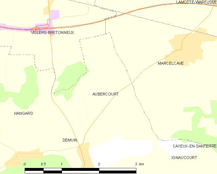 Map of French municipality Aubercourt